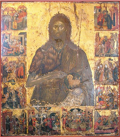 Icon of John Baptist by Emmanouel Tzane located in Kranidi, ARgolida, Greece